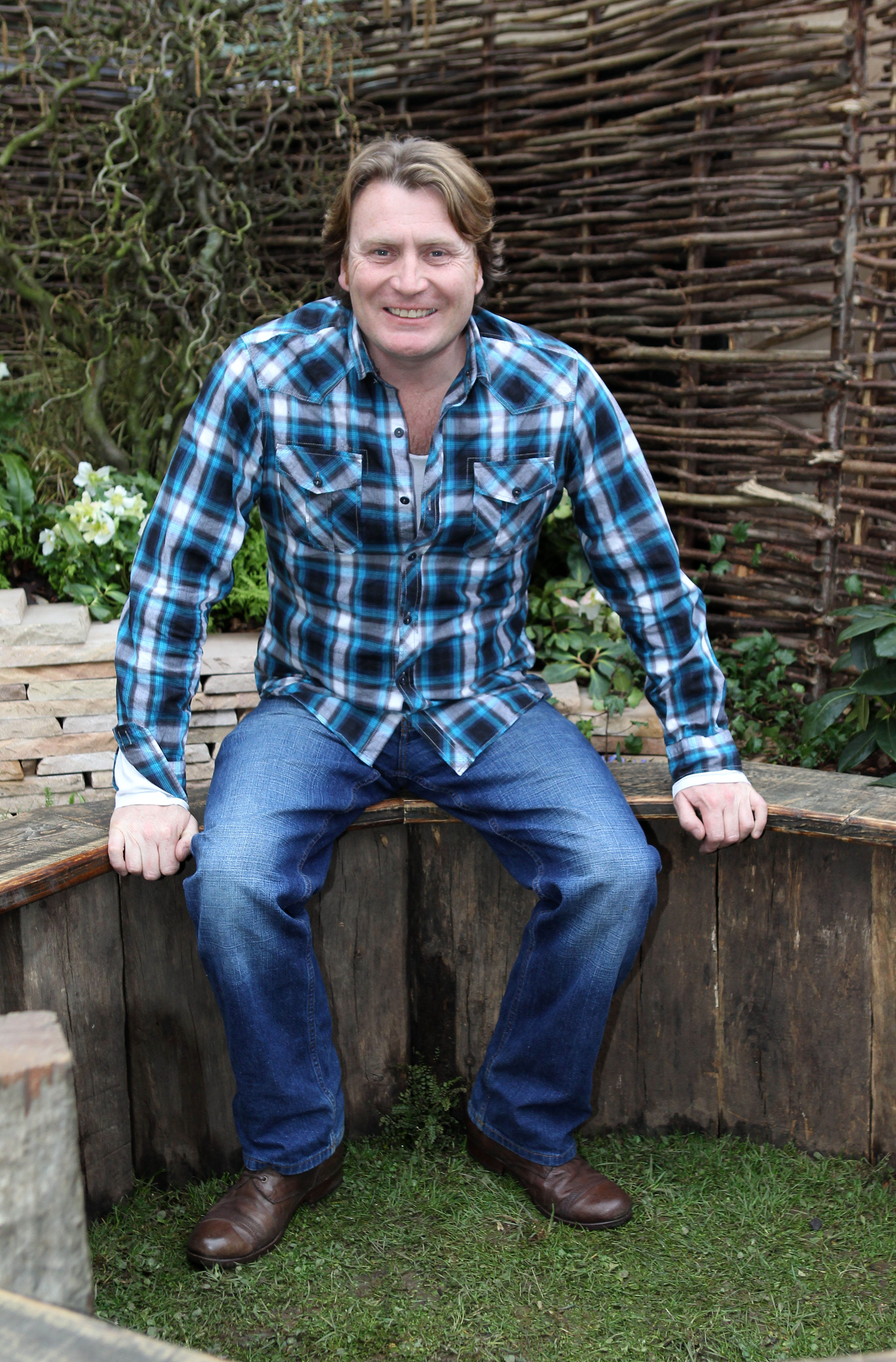 A photo of David Domoney